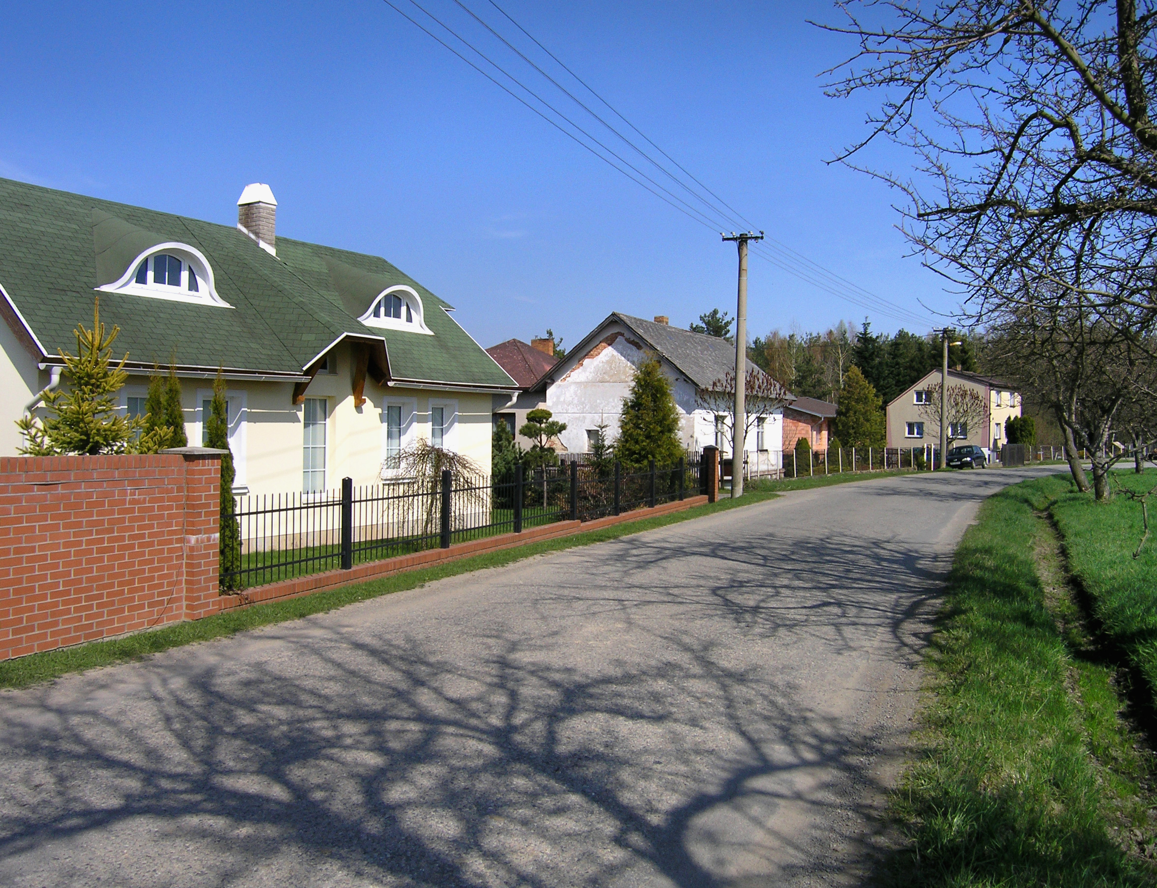 Malý Budíkov, part of Budíkov village, Czech Republic